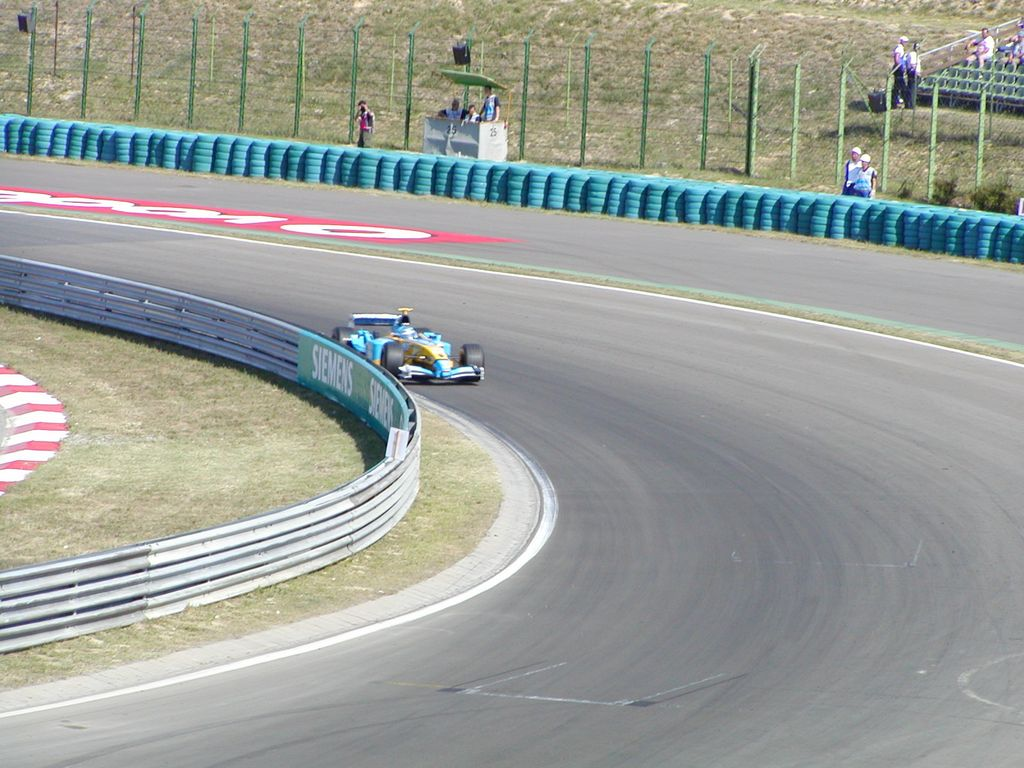 Jarno Trulli (Renault) in the last corner at the 2003 Hungarian Grand Prix.